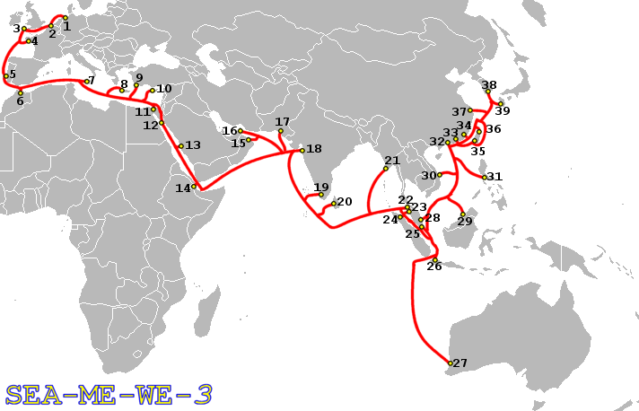 The Route of the SEA-ME-WE-3 Submarine Telecoms Cable. The name means “South-East Asia - Middle East - Western Europe 3”. For more information regarding this and locations of the landing points (Numbered above), see the main article.